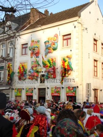 Street carnival in Maastricht.